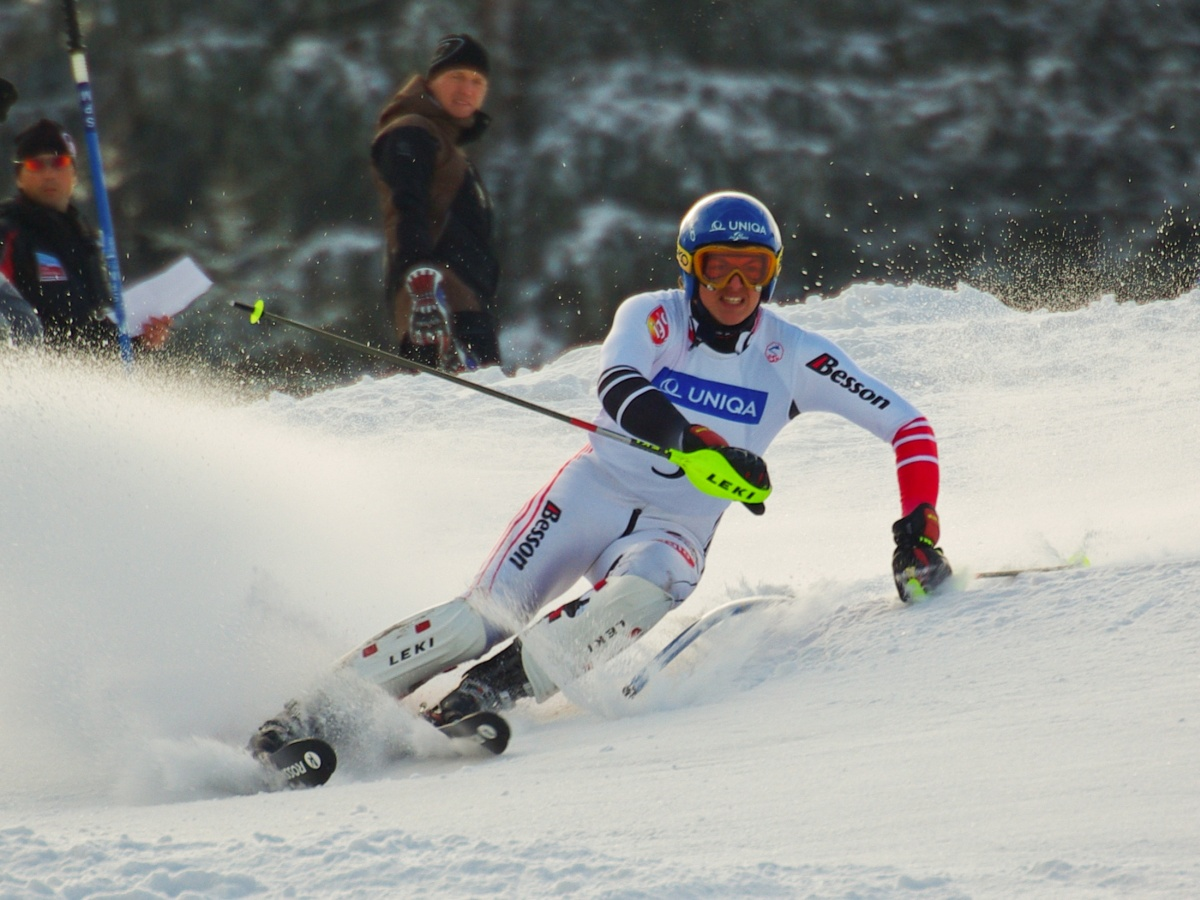 Austrian alpine skier Frederic Berthold in the second slalom run at the Austrian Junior Championships 2008 in Lackenhof.